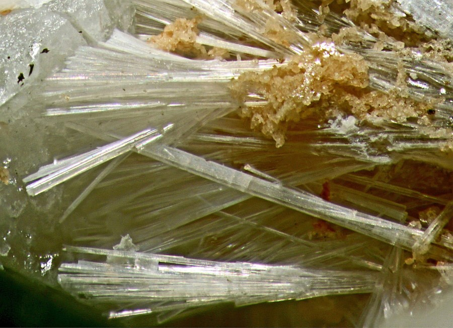 Adamsite-(Y) Locality: Poudrette quarry (Demix quarry; Uni-Mix quarry; Desourdy quarry; Carrière Mont Saint-Hilaire), Mont Saint-Hilaire, La Vallée-du-Richelieu RCM, Montérégie, Québec, Canada FOV 3.3 x 2.4 mm This is a different spray on the same specimen. Some of the xls may look orthorhombic but I don't think there is any shomiokite-(Y) here. Of course they are often found together and without analysis one can't really be sure.